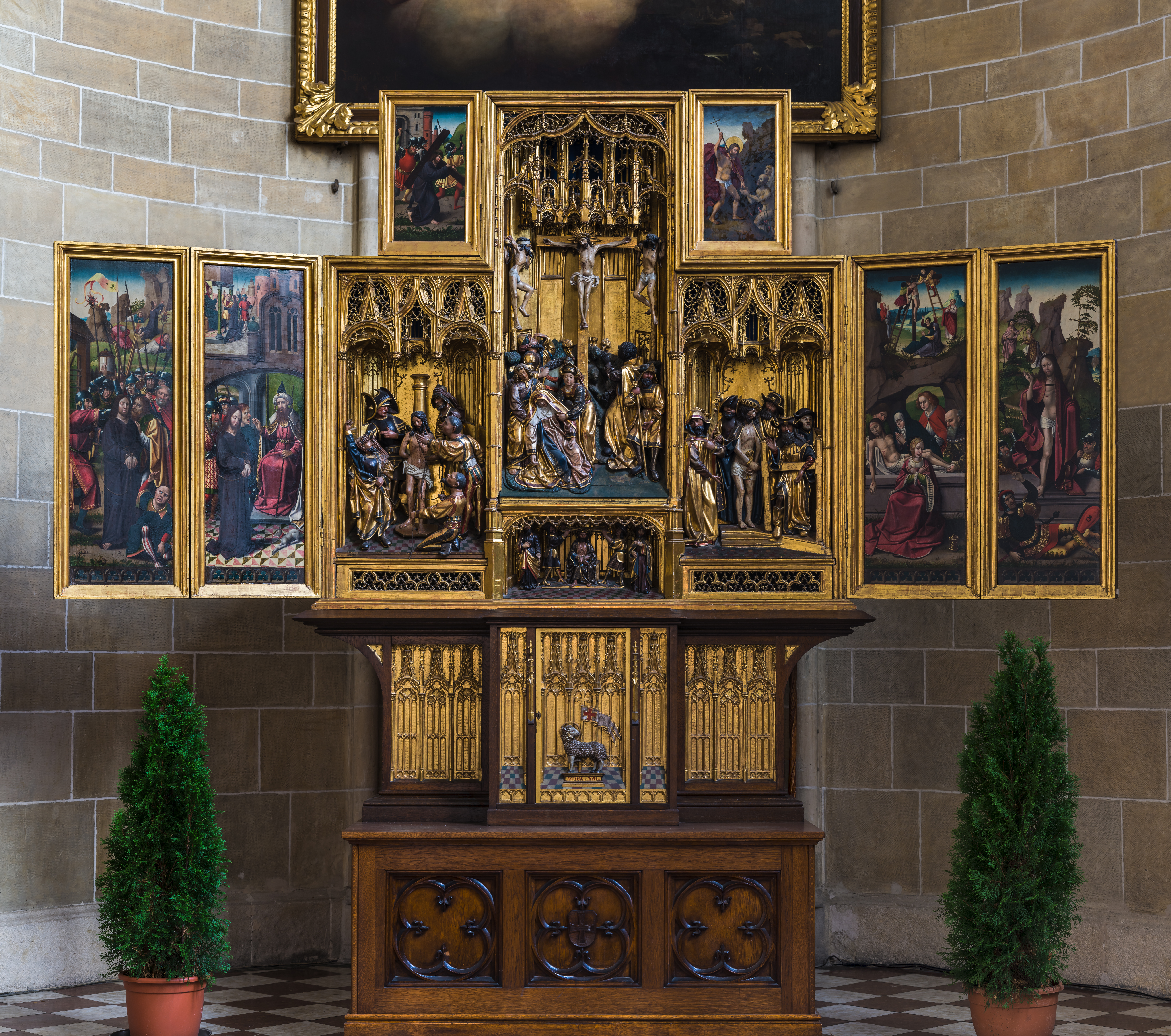 Flemish winged triptych at the Church of the Teutonic Order in Vienna, Austria. Panel paintings and woodcarvings by anonymous masters; polychromy of the woodcarvings by Jan van Wavere, Mechelen, signed 1520. This altarpiece was originally made for St. Mary's Church, Gdańsk, and came to Vienna in 1864.